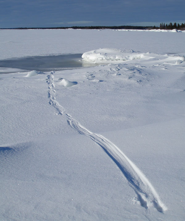 Tracks of otter (Lutra lutra) on the island of Tarv off the coast of Västerbotten, Sweden.